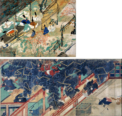 History of Kitano Tenjin (紙本著色北野天神縁起, shihon chakushoku kitano tenjin engi). Two parts of eight large handscrolls (Emakimono), 52.2 cm high, length between 842 cm、and 1211 cm. Color on paper. Biography and catalogue of miracles performed by Sugawara no Michizane, the founder of Kitano Tenman-gū. Located at Kitano Tenman-gū, Kyoto, Japan. The set of five scrolls have been designated as National Treasure of Japan in the category paintings.